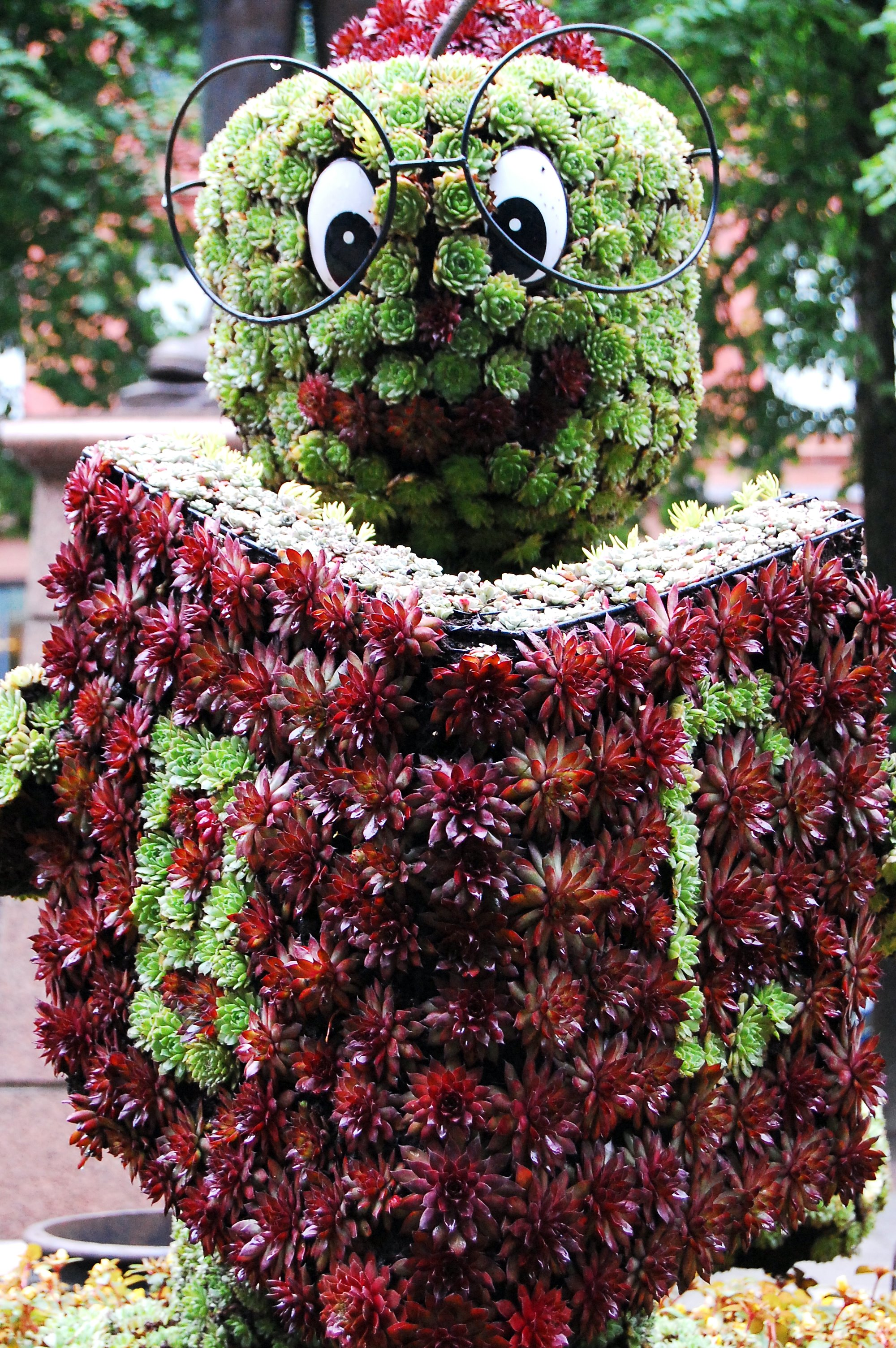 Front view of a plant sculpture of a green bookworm reading a book with a B and C on it. Photo from Manchester.